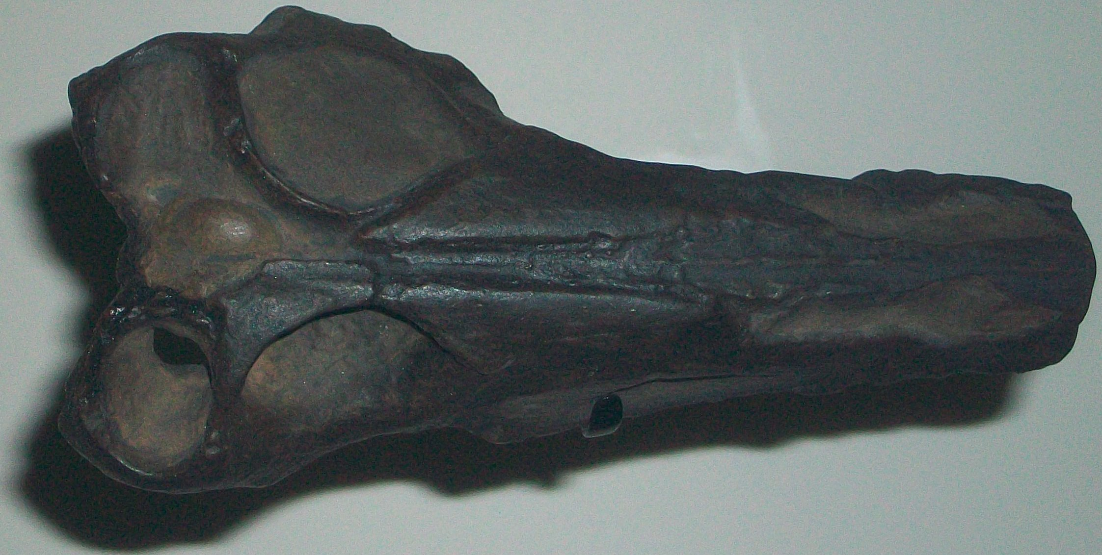 Cast of the skull of Parapsicephalus purdoni (specimen AMNH 1694) in the American Museum of Natural History.